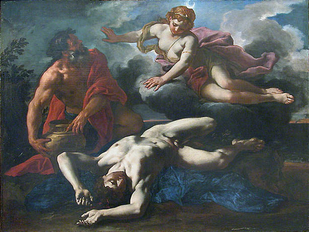 lit: "Diana next to the corpse of Orion", or Diana over Orion's corpse, before he is placed in the heavens